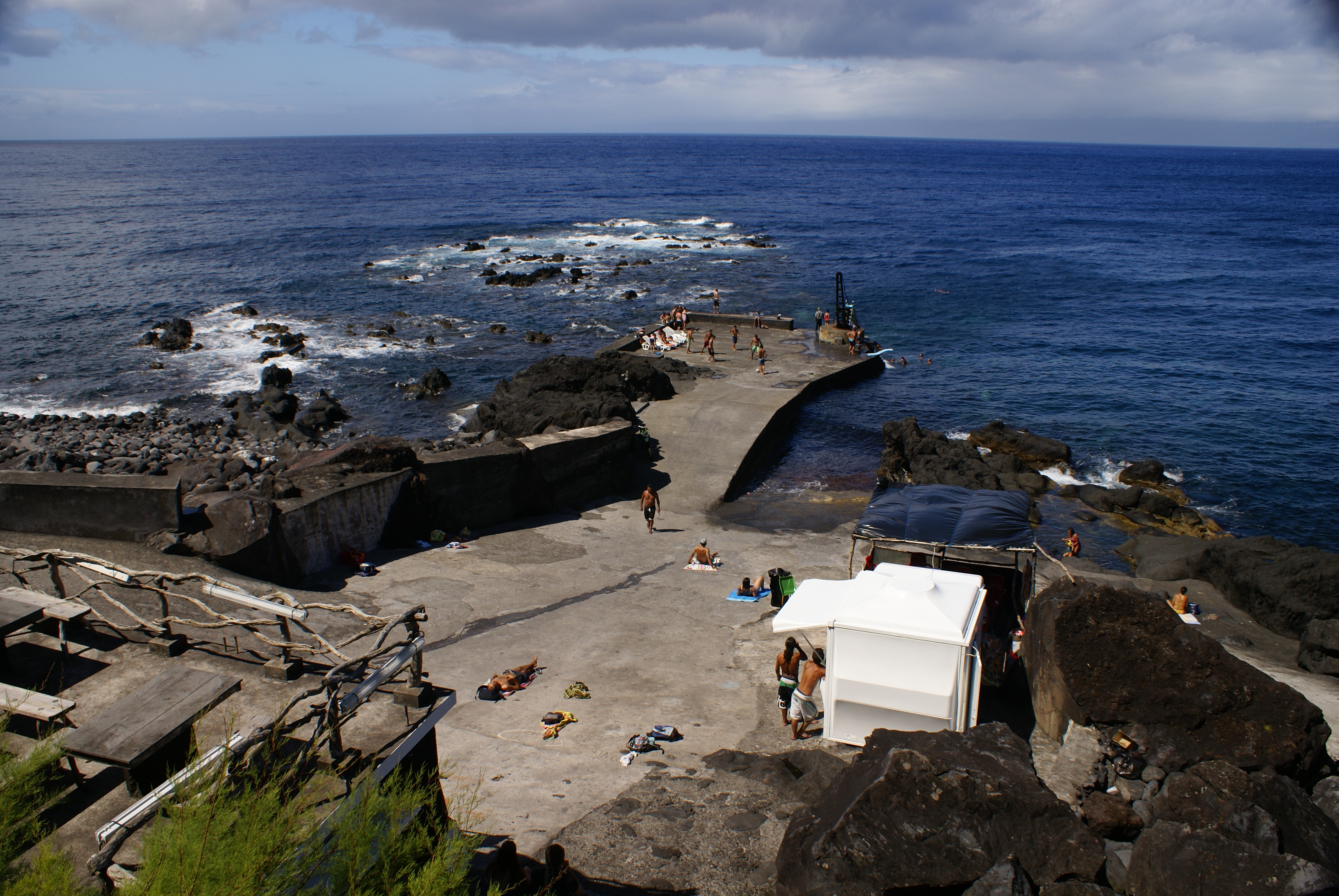 Porto Piscatório da Fajã da Baíxa, Lajes do Pico, ilha do Pico, Açores, Portugal